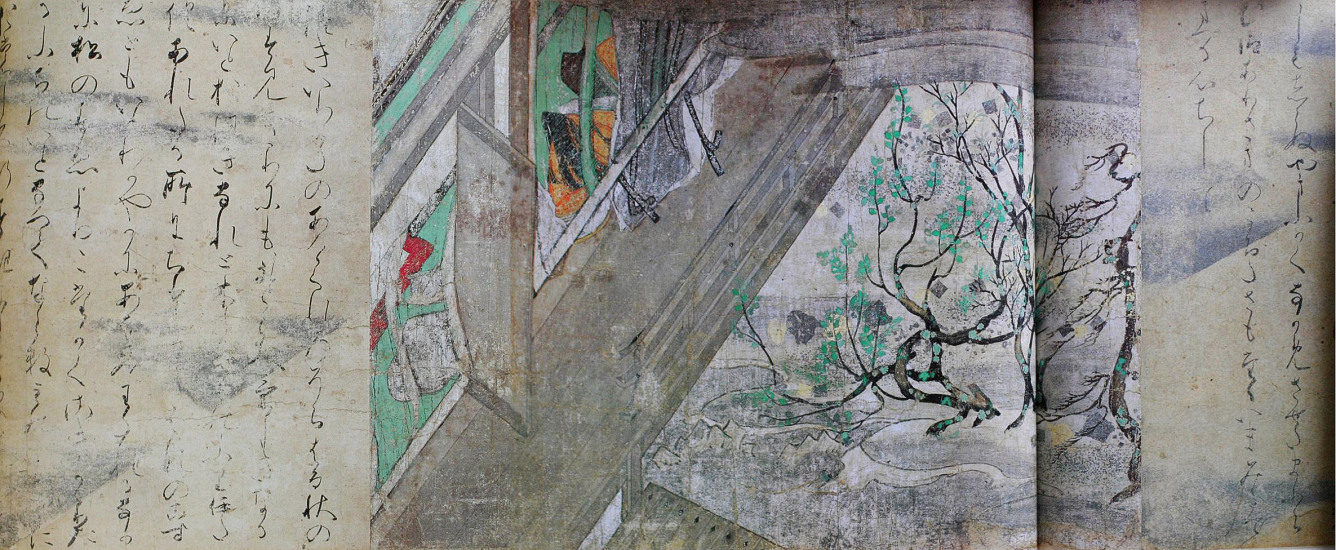 A scene of handscroll of NEZAME MONOGATARI, Height 25.8cm, color, gold, silver on paper, late 12th century, Japan, YAMATO-NUNKAKAN museum collection, Nara, Japan